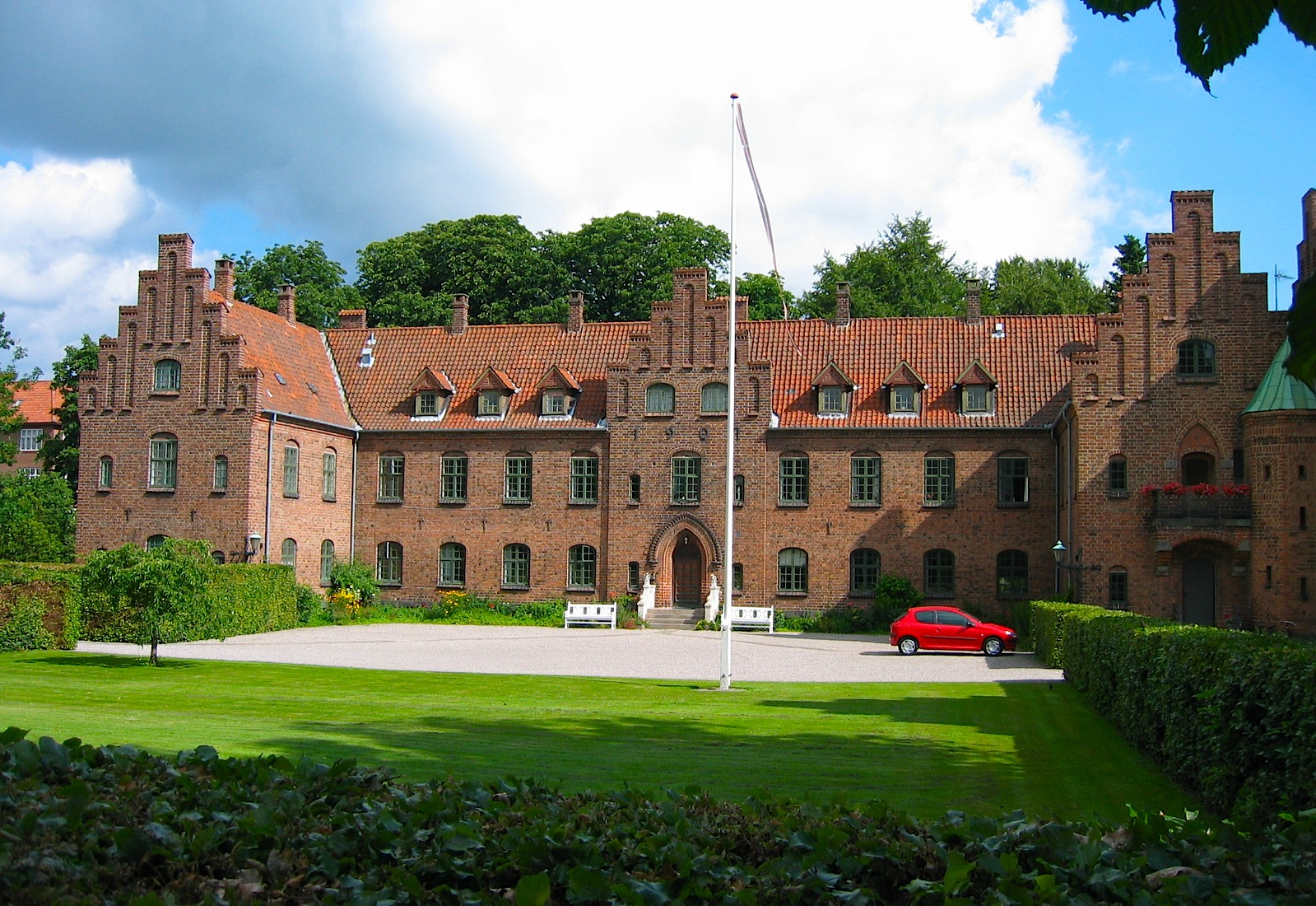 The cloister in Roskilde, Denmark